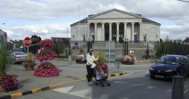 Carlow Courthouse Carlow Courthouse is located at the end of Dublin Street. It is considered to be one of the finest courthouses in the country and was designed by William Vitruvius Morrison in 1830 and completed in 1834. Fronted by cast iron railings and built of Carlow granite, the Court House gives the impression of being a temple set on a high plinth, but this obscures the fact that the basement is a maze of cells and dungeons. A cannon from the Crimean War stands on the steps.